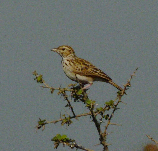 Mirafra erythroptera photographed in Pune (October 2011)